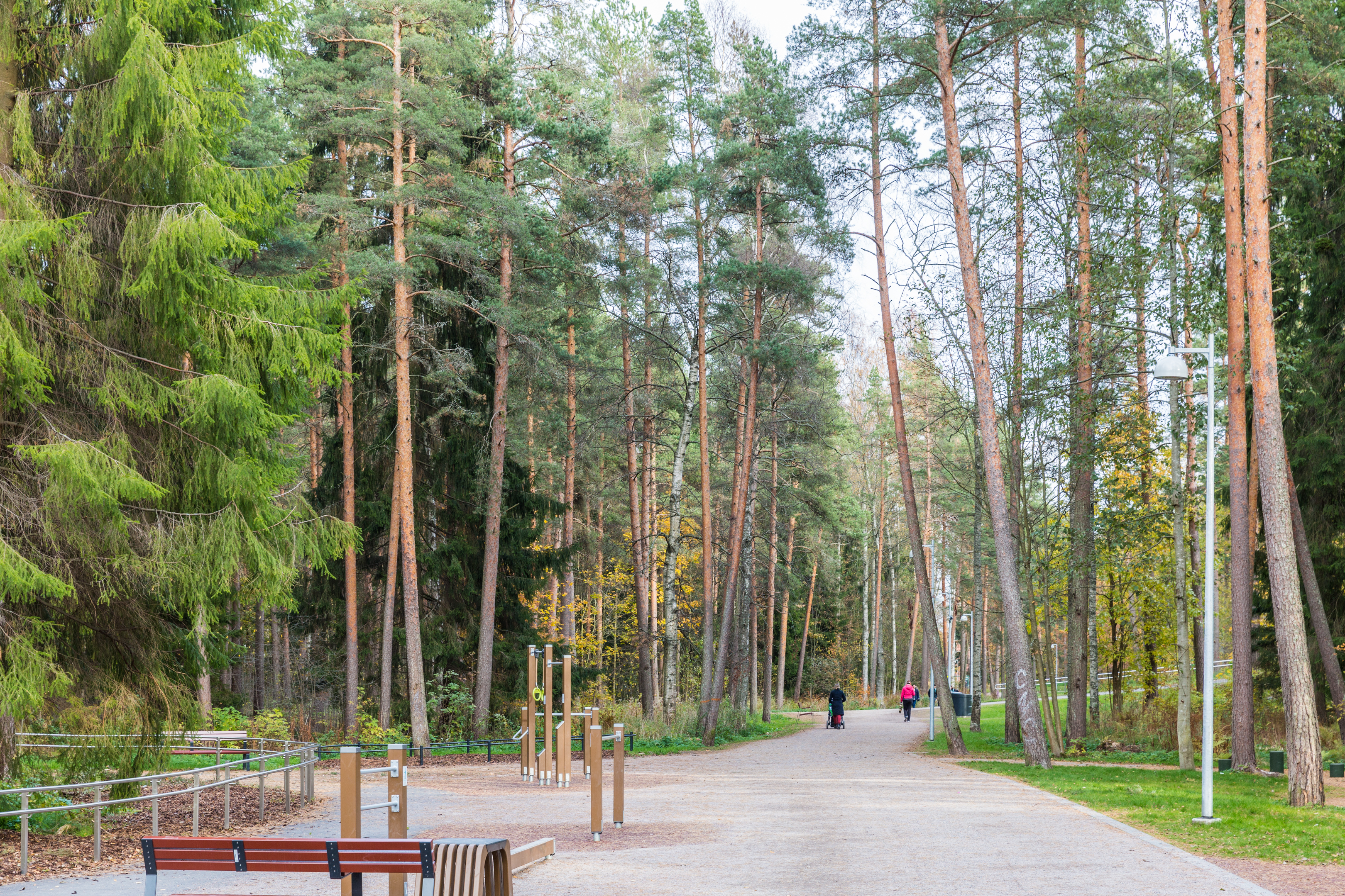 Runar Schildt Park